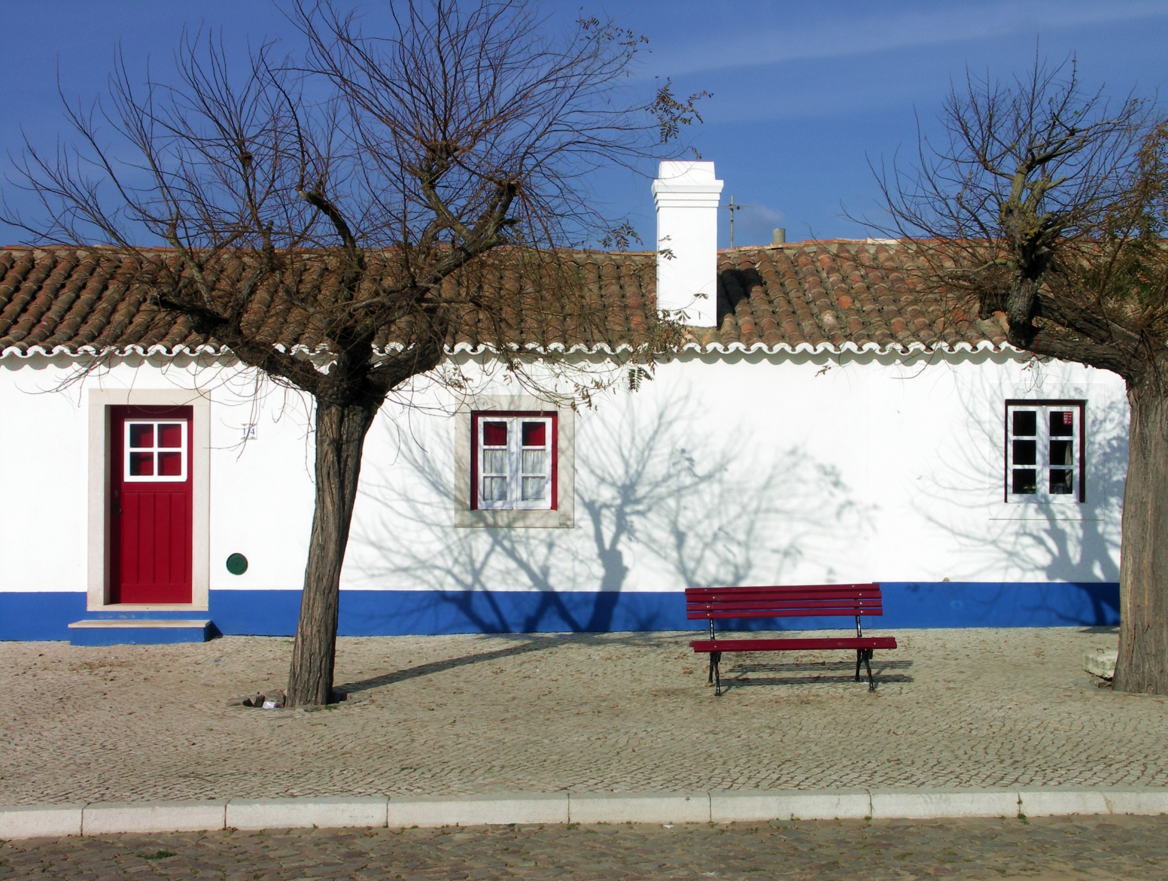 Porto Covo, Portugal - typical house